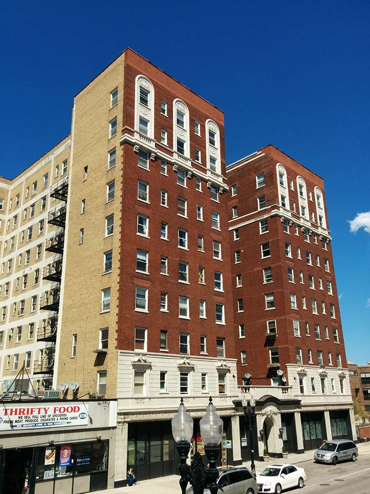 Originally the Chelsea Hotel, 920 W Wilson is now the headquarters for the intentional Christian community, Jesus People USA.